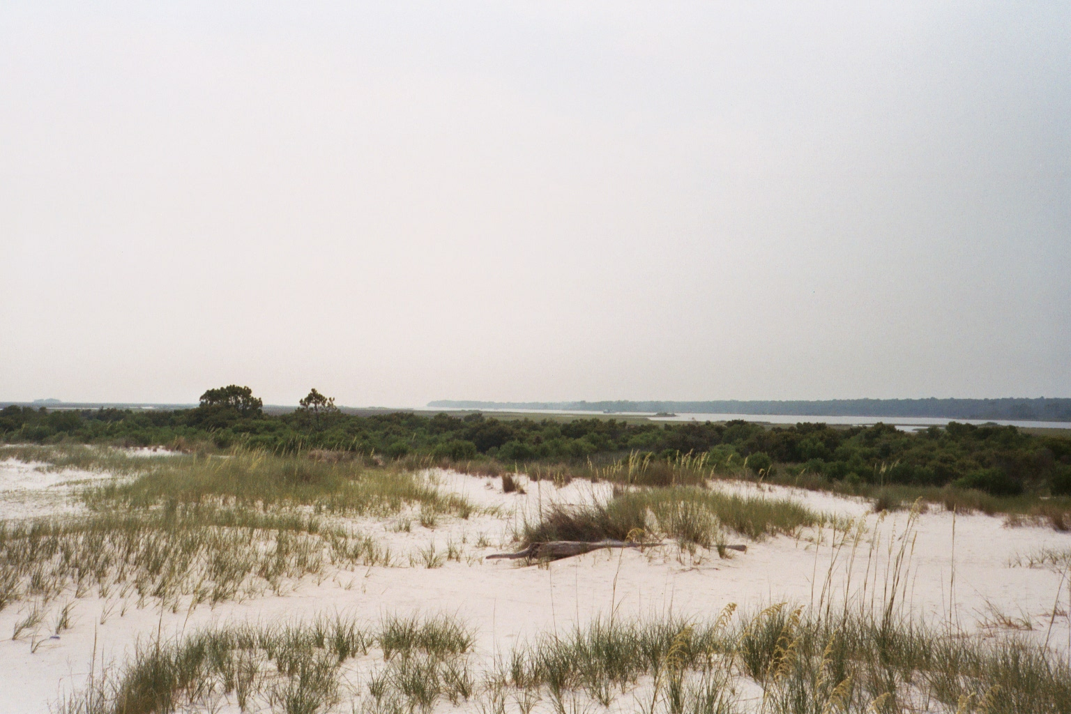 SHot taken by Bruce Richards & Tom Warner on visits to Cat Island, 4-29-05 and 6-24-05